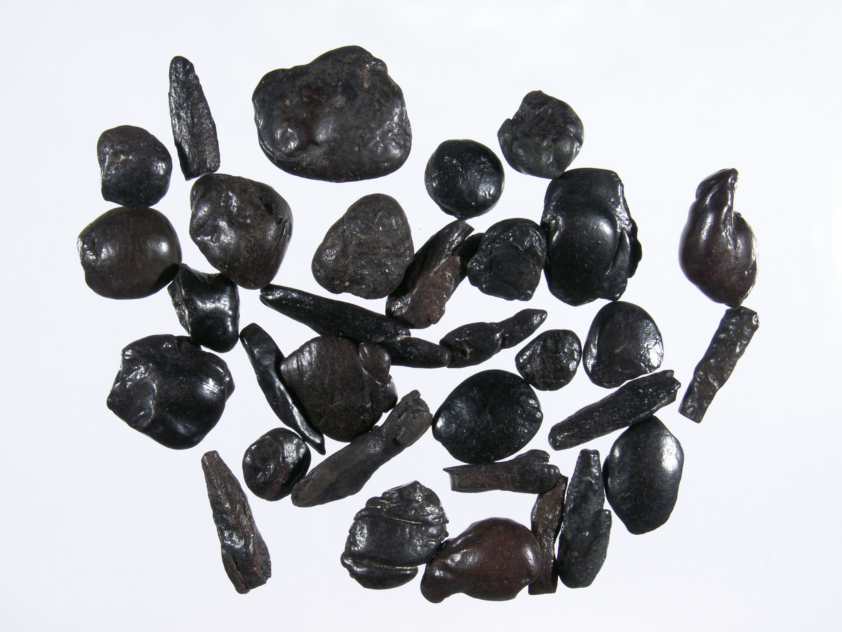 Amber from Bitterfeld, pseudostantienite